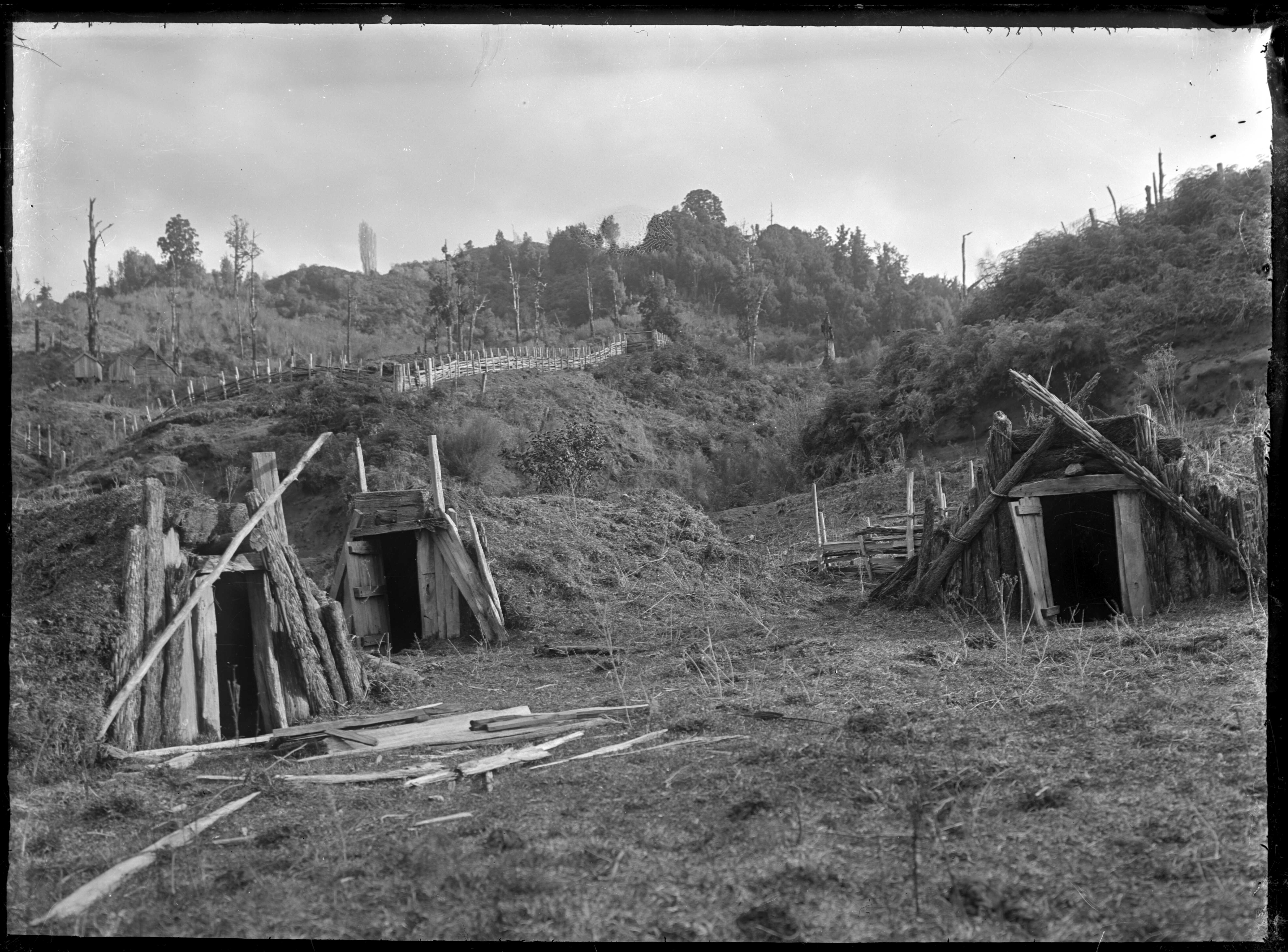 View of three rua kumara (pits for storing kumara), dug into the side of a hill, at Ruatahuna. Photograph taken by Albert Percy Godber in 1930.